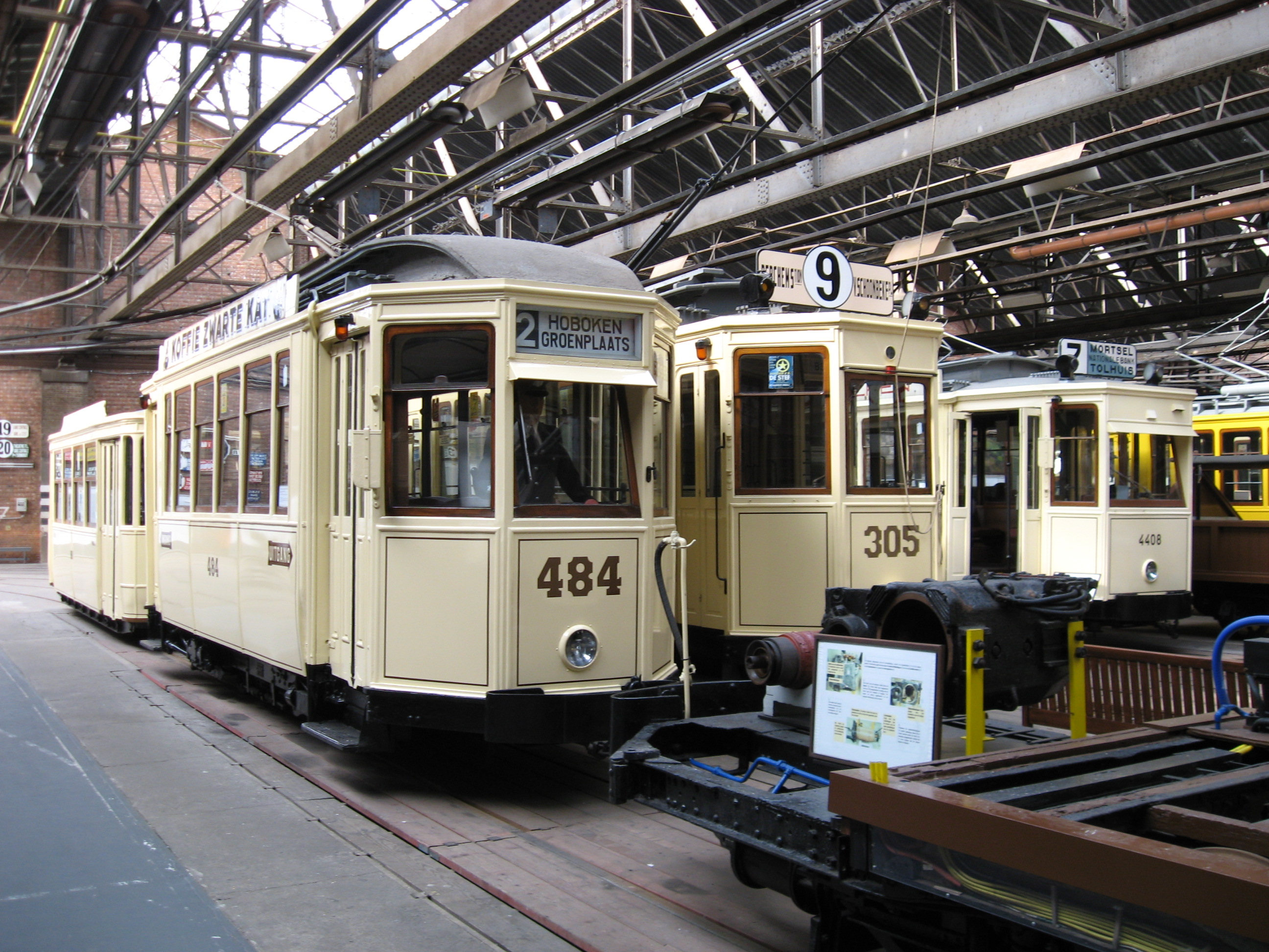 Old Miva two axle trams in the trammuseum.